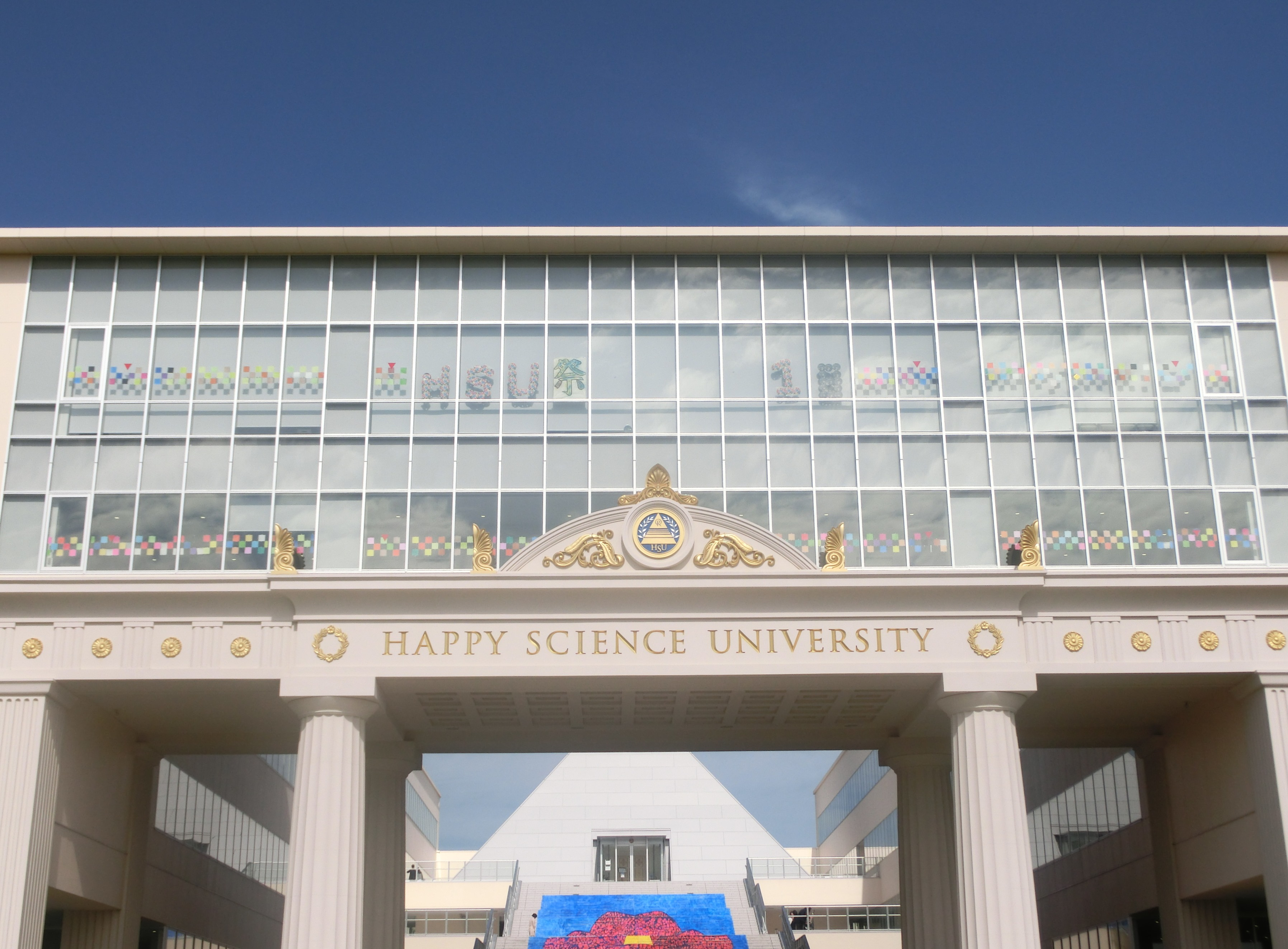 Academic and Administrative Building (Happy Science University)